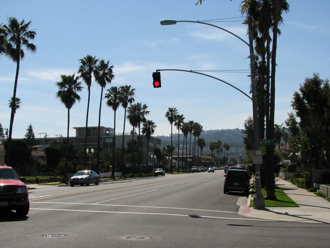 Avenue F and Catalina Ave. in Redondo Beach, CA